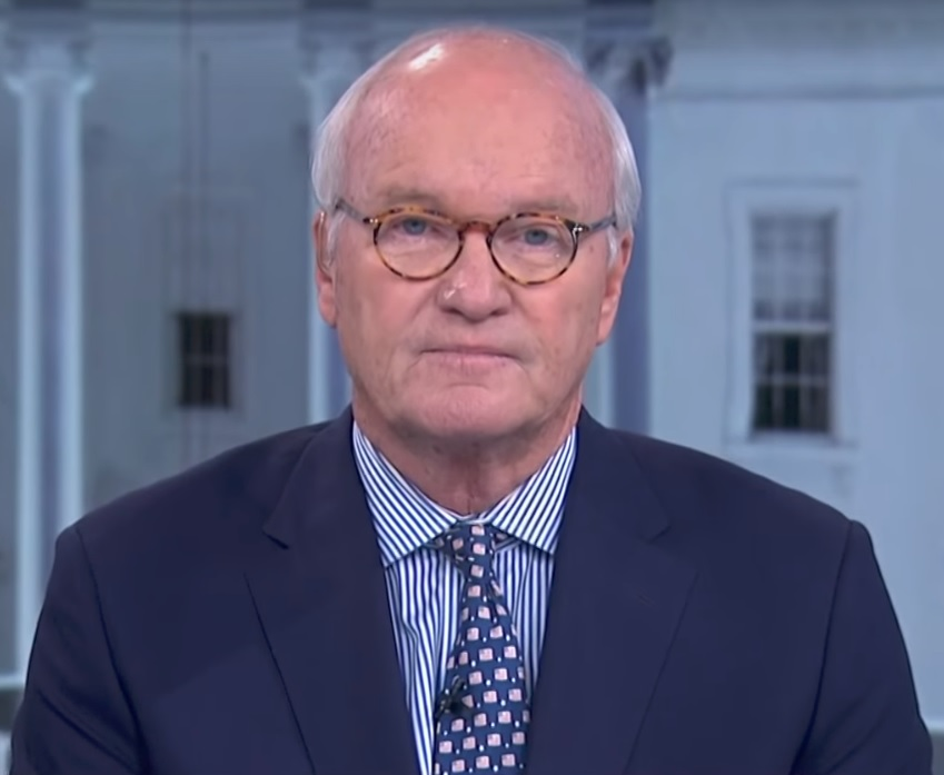 Political journalist Mike Barnicle on MSNBC's Morning Joe. The president publicly addressed on Wednesday closed-door remarks he made about violence in the country if Democrats win in the midterms. The panel discusses. » Subscribe to MSNBC